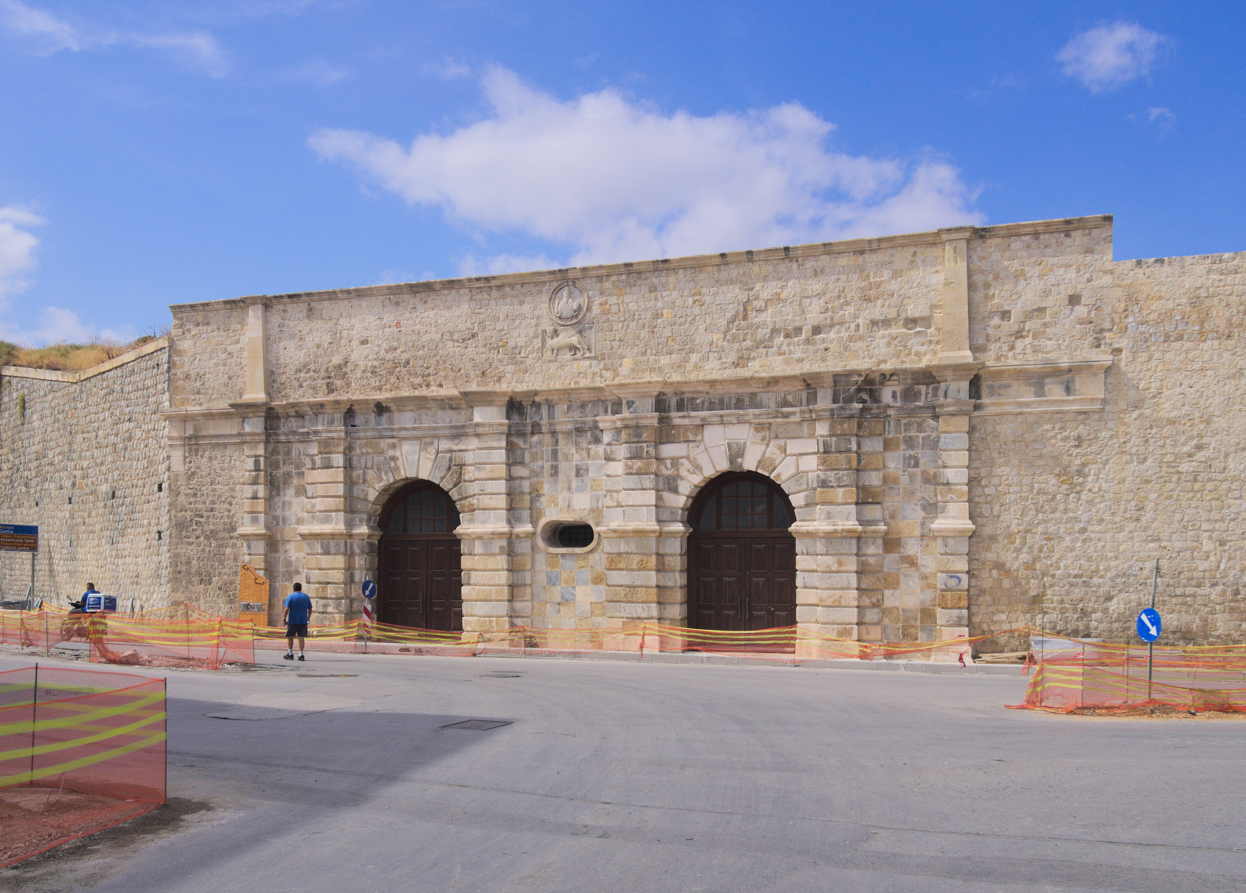 Pantokratoras Gate, Heraklion venetian walls, view from the in side of the city walls.